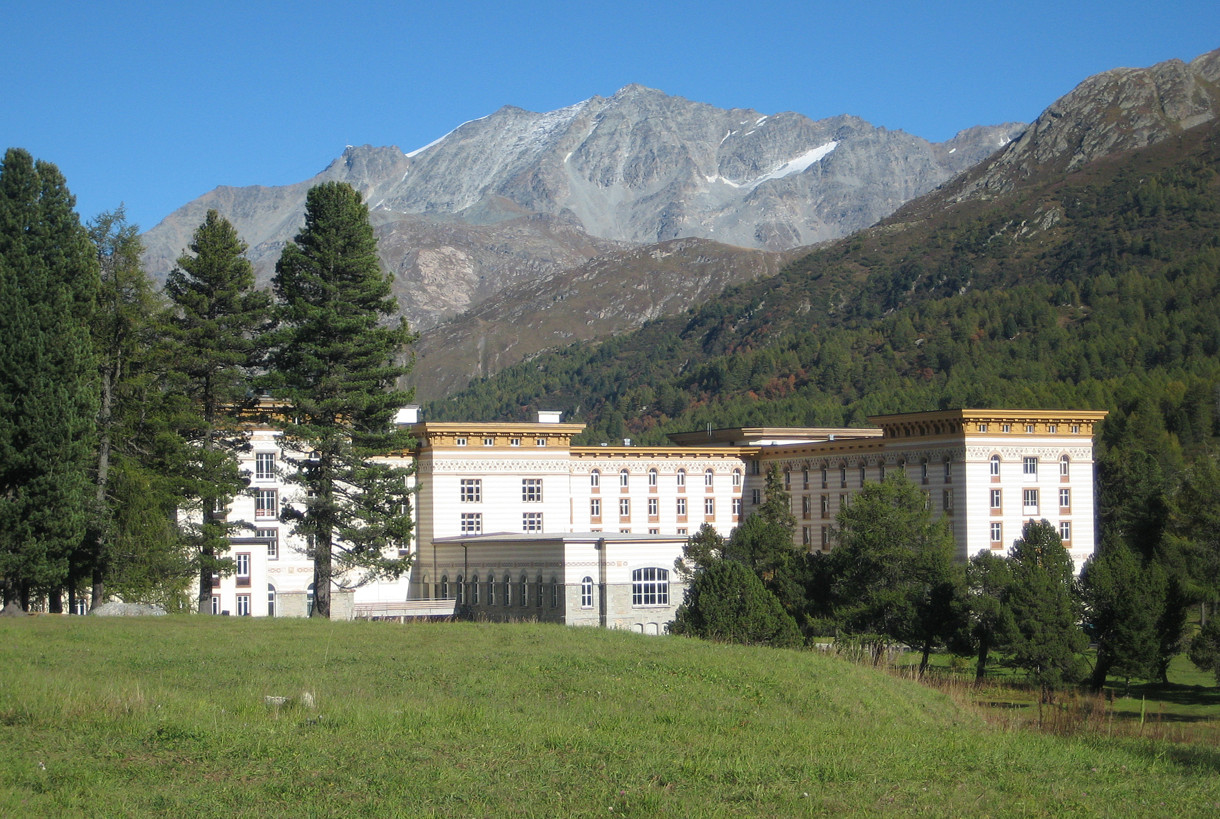 The hotel Maloja Palace at Maloja Pass (1815 m, Engadin, Switzerland), in the background: Piz Corvatsch (3451 m) and Piz Murtel (3433 m).